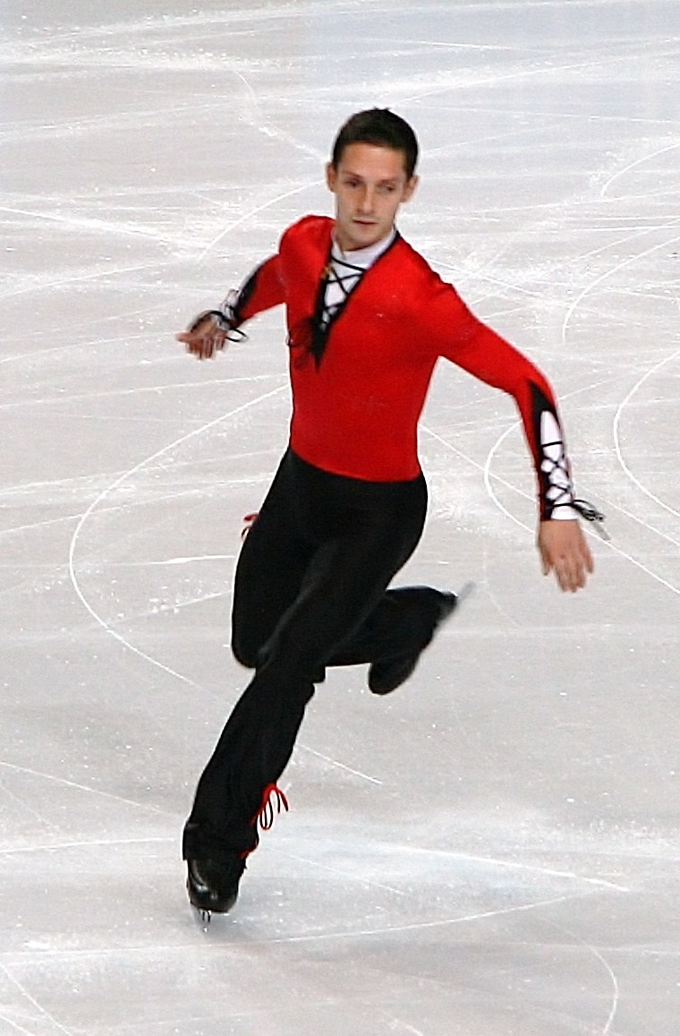 Zoltán Kelemen at the 2010 Trophée Eric Bompard